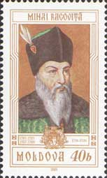 Stamp of Moldova, 2001, rulers of Moldova: Mihai Racoviţă (1703-1705, 1707-1709, 1716-1726).